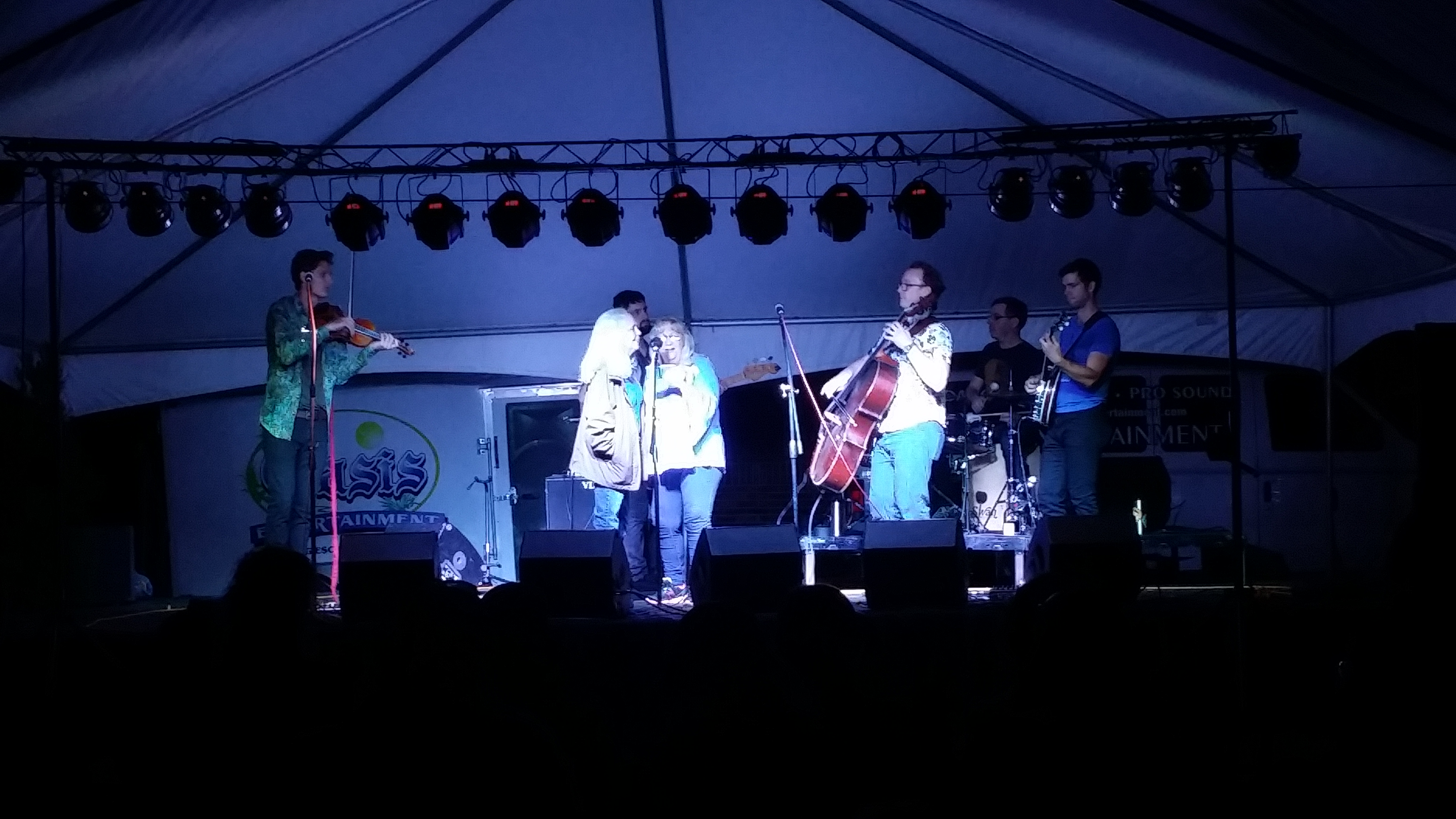 Ben Sollee at a concern in Corbin, KY in 2017